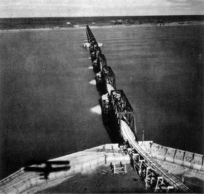 Original caption: “The bridge at the island, in Port Nelson, looking north, 1927”